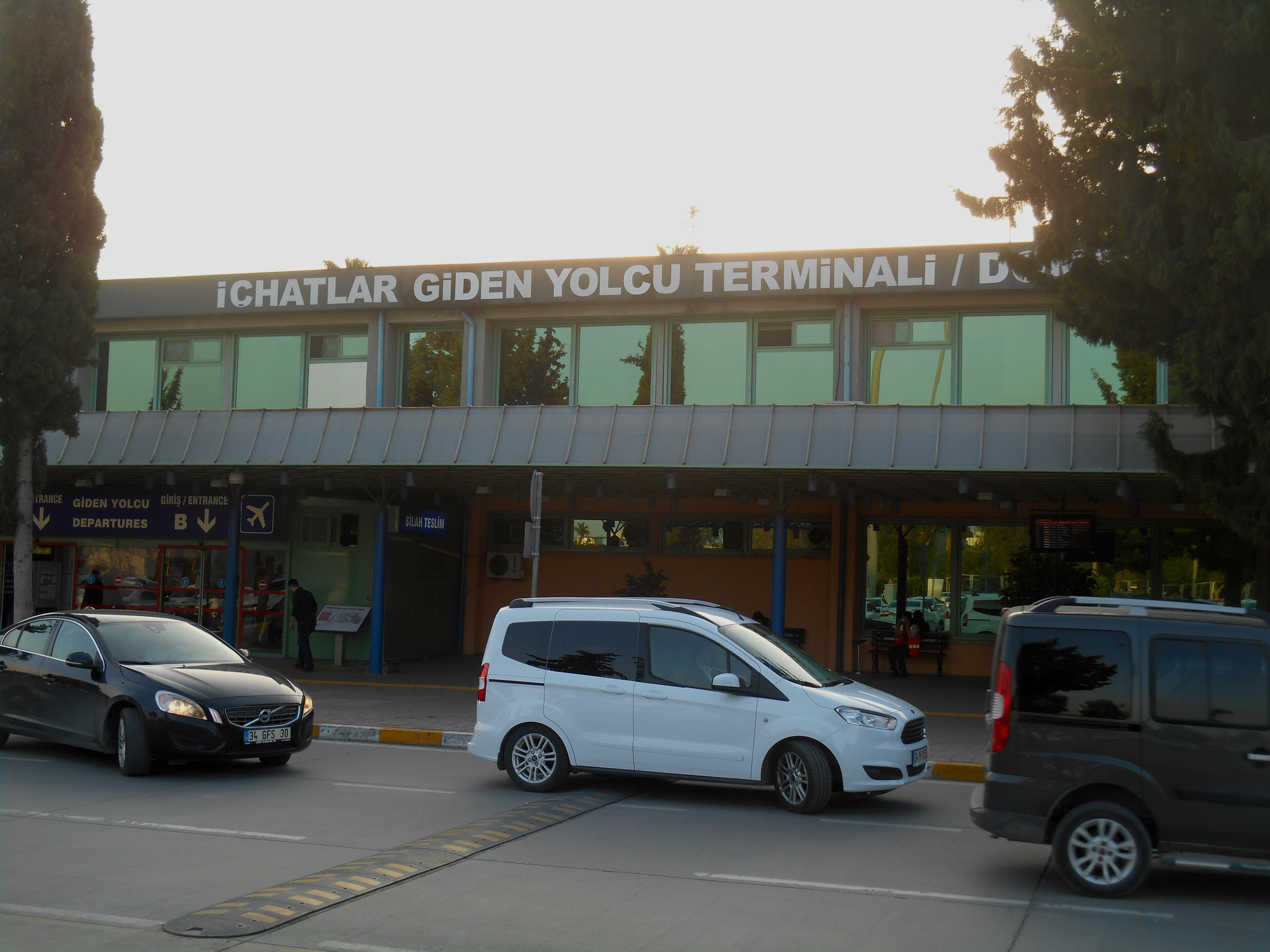 Adana Airport Domestic Terminal